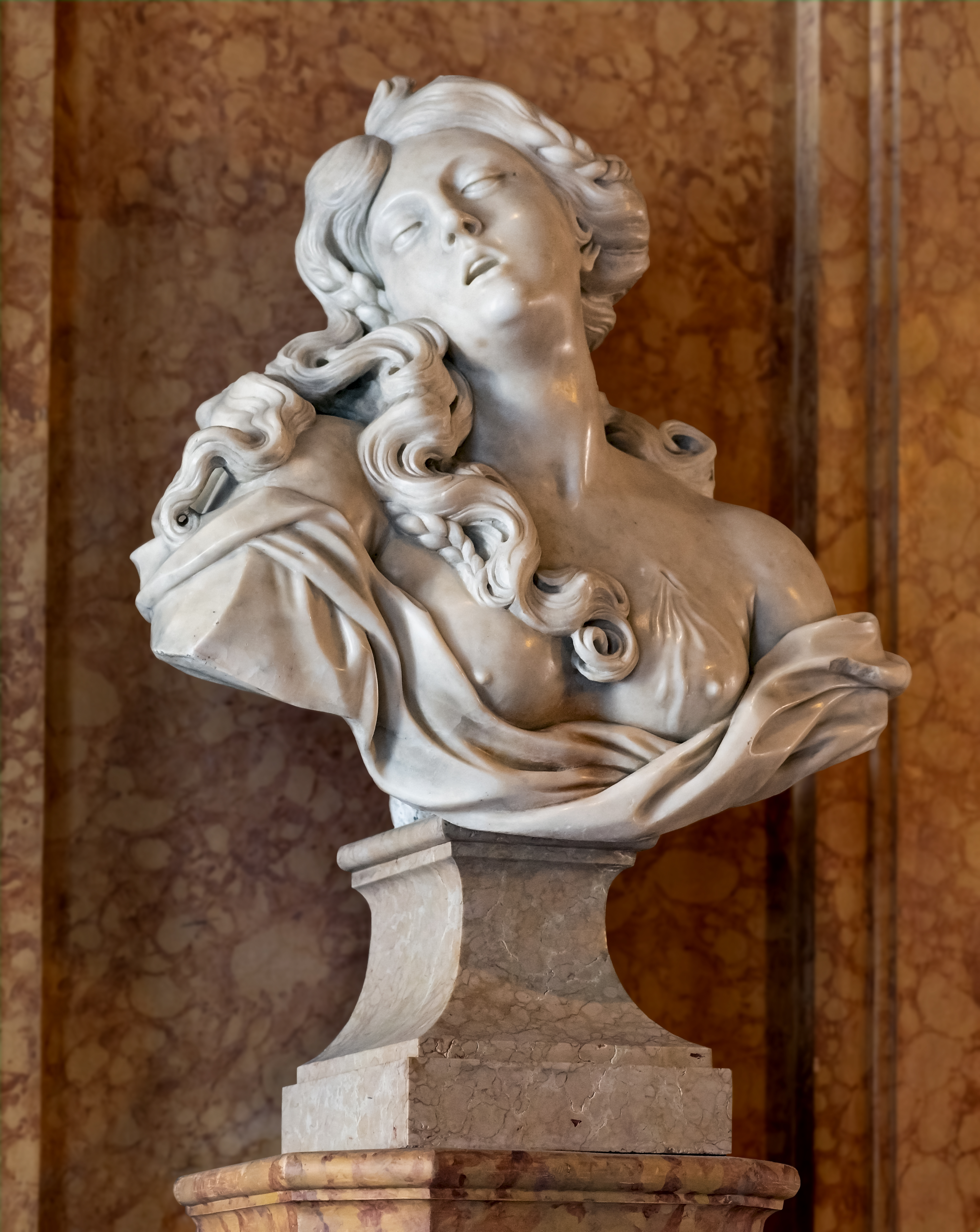 Depicted person: Lucretia – late 6th century BC Roman noblewoman whose rape by an Etruscan prince led to the overthrow of the monarchy